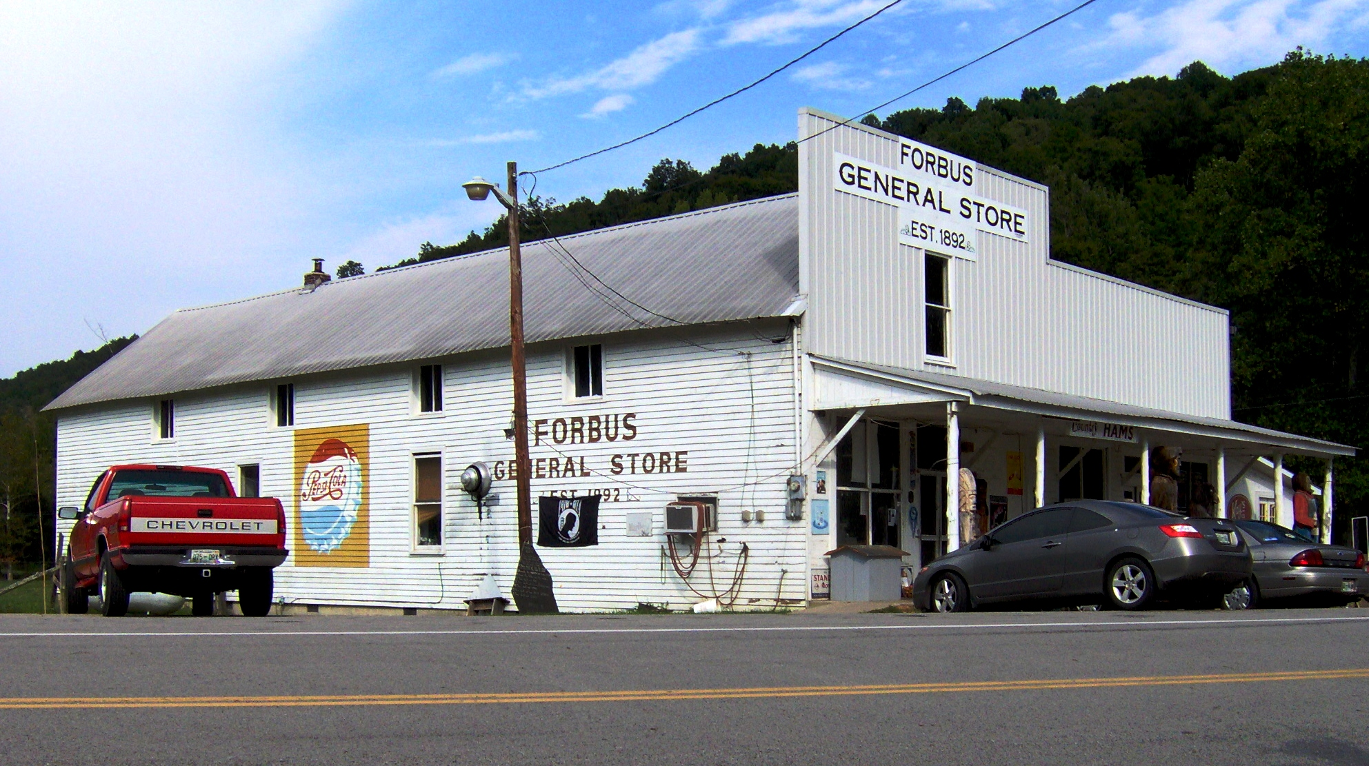 Forbus General Store in Forbus, Tennessee, USA. Built in 1892, the store is now listed on the National Register of Historic Places.